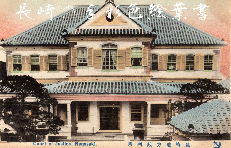 Japanese hand tinted postcard view of the Nagasaki Court of Justice